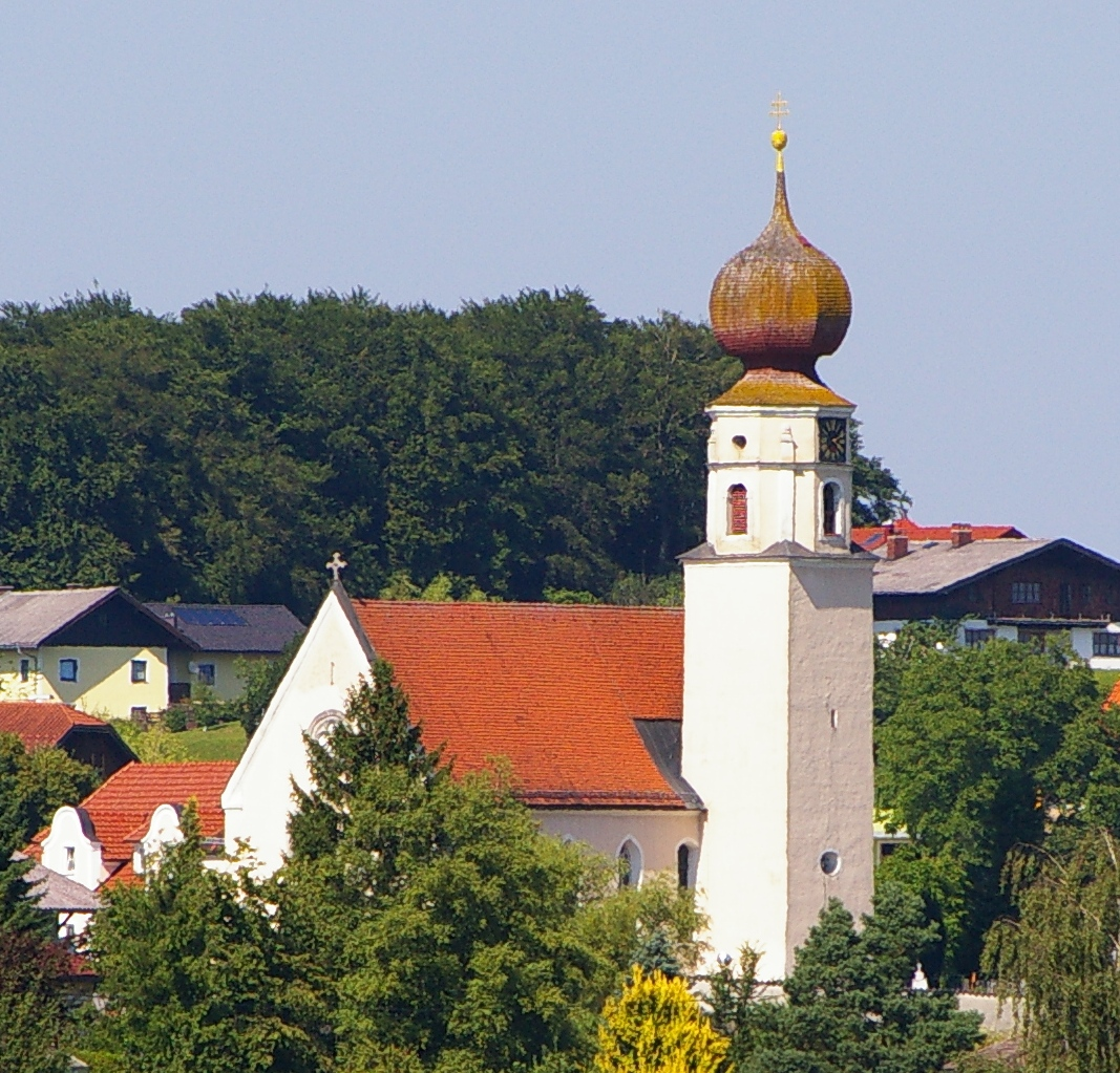 parish church Geretsberg